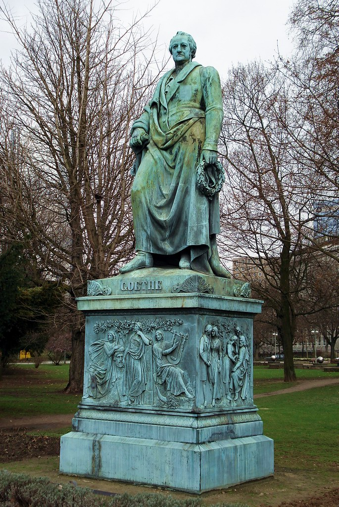 Statue of Goethe in Frankfurt am Main, Germany